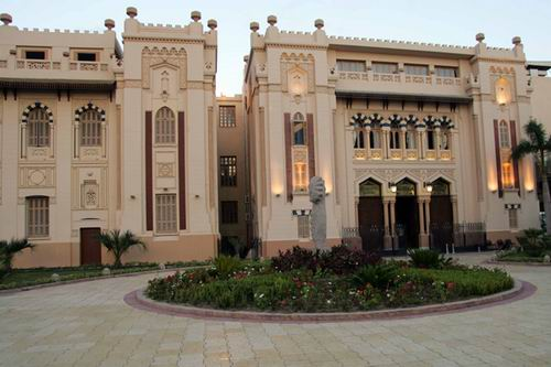 opera damanhour